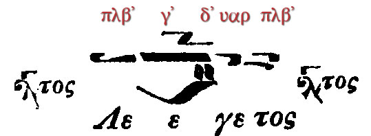 Ancient enechema of echos legetos